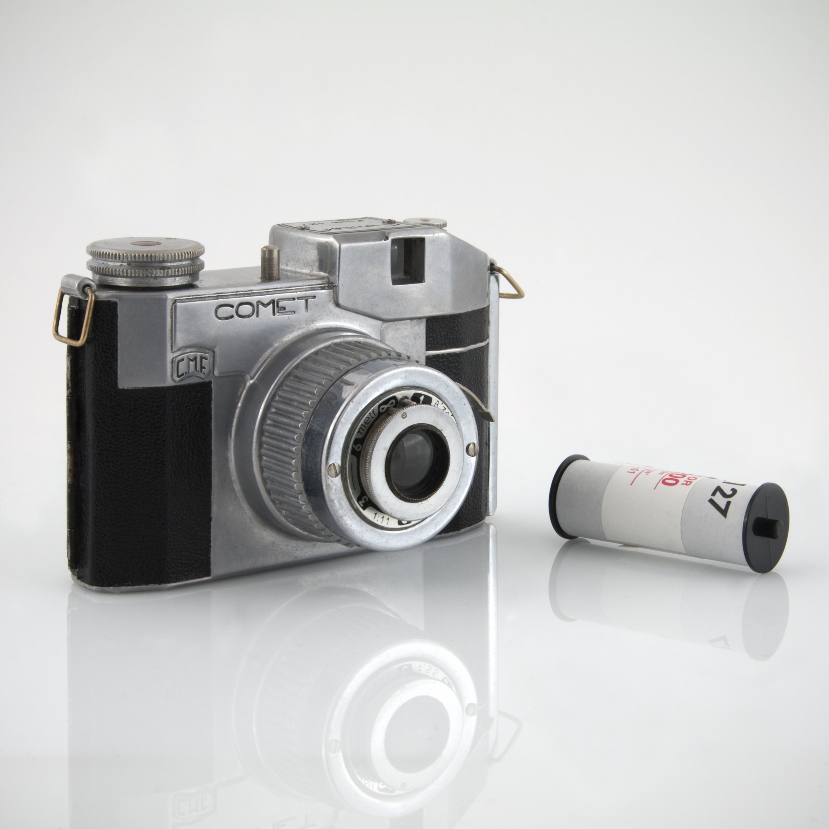 A Bencini Comet camera. Using 127 film, they were made by CMF Bencini in Italy from 1948. The rotary shutter was set to 1/50, but also supported a B mode - the lever on the right of the lens is currently raised, placing it in that configuration. The lens could be manually focused, although there was no rangefinder, and the negatives were 4x3cm "portrait" images. The body of the camera was made from cast aluminium.